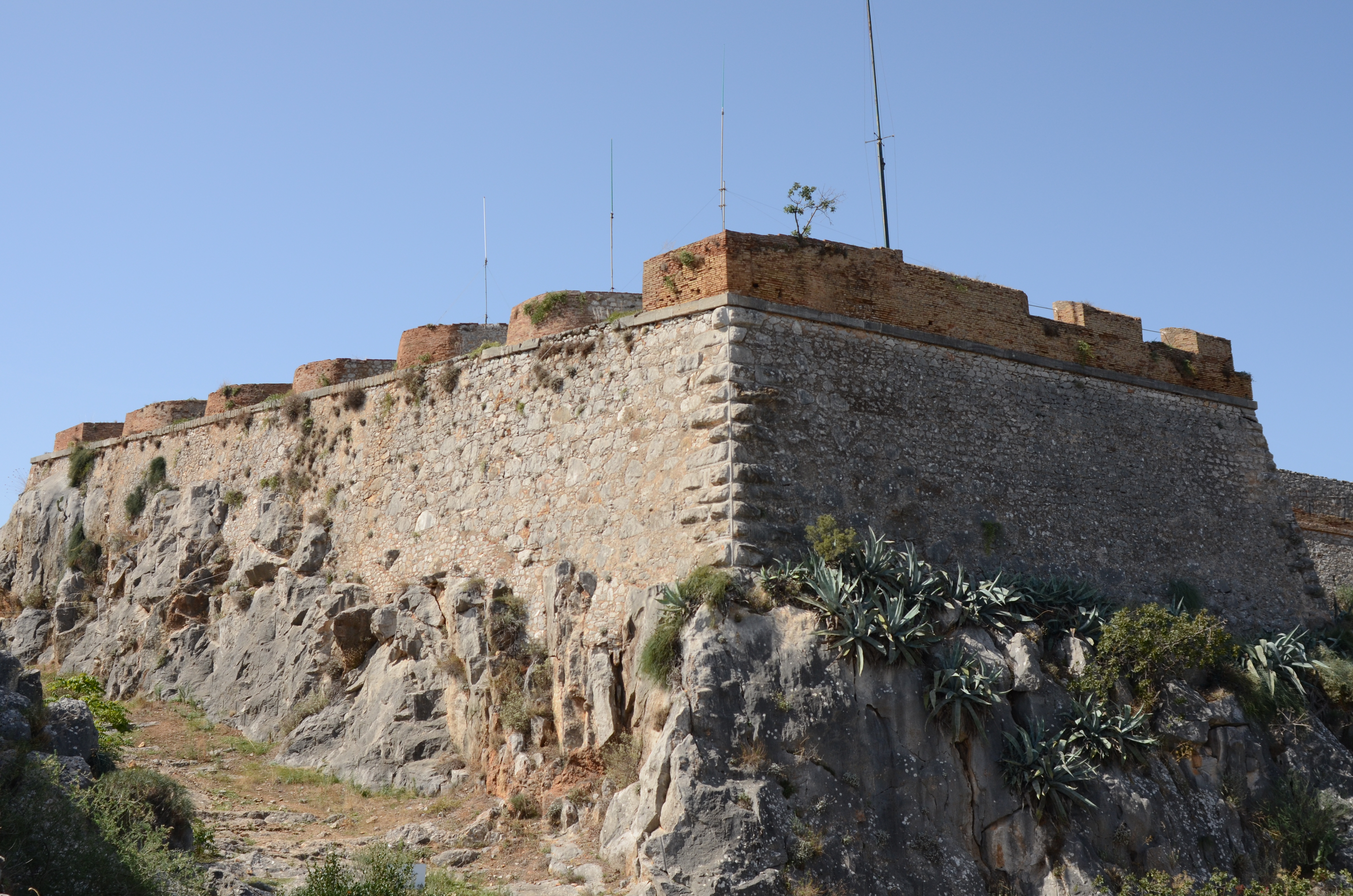 Part of the Palamidi fortress in Nafplio